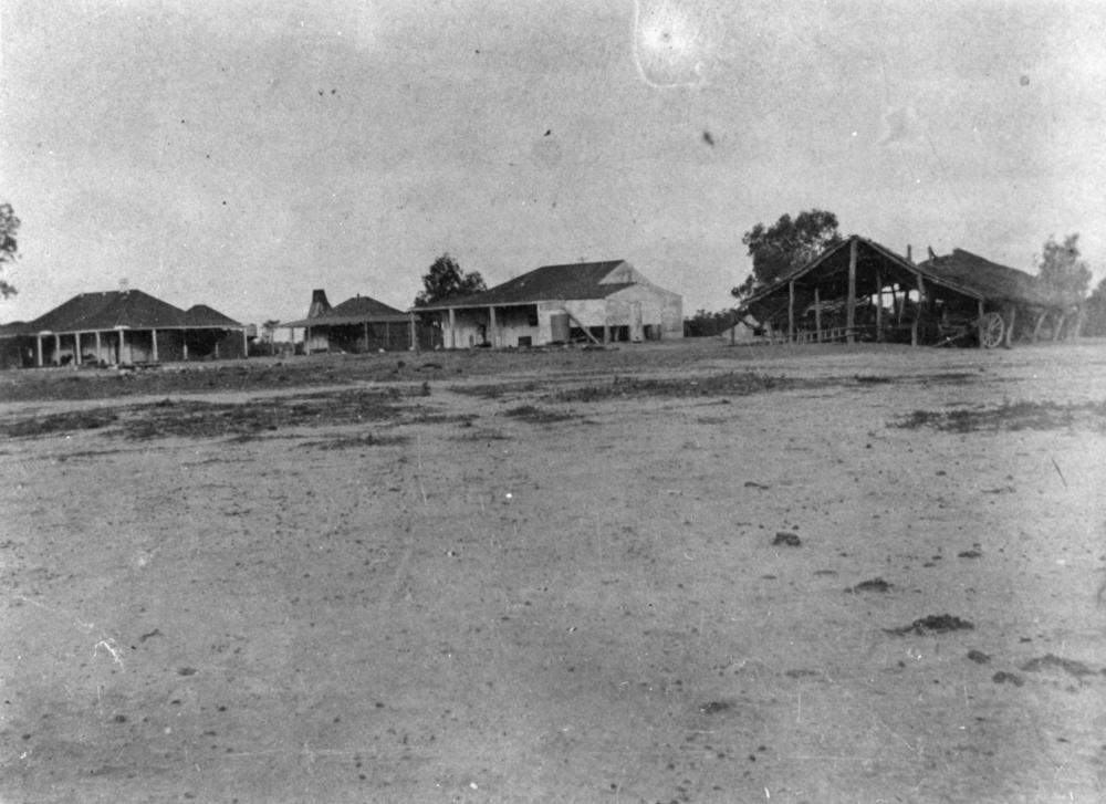 Innamincka Station 1910.